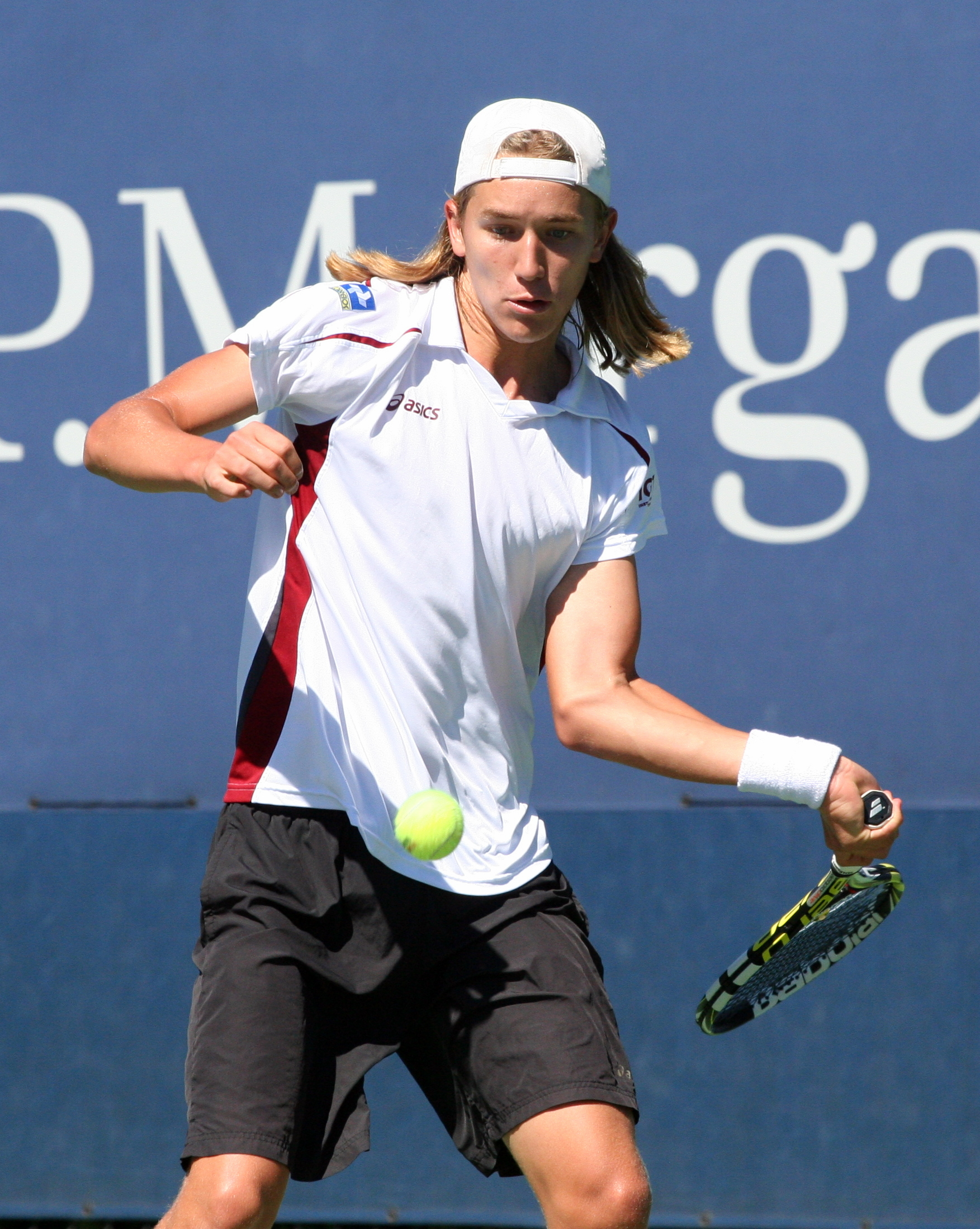 Wednesday, Sept. 4, 2013